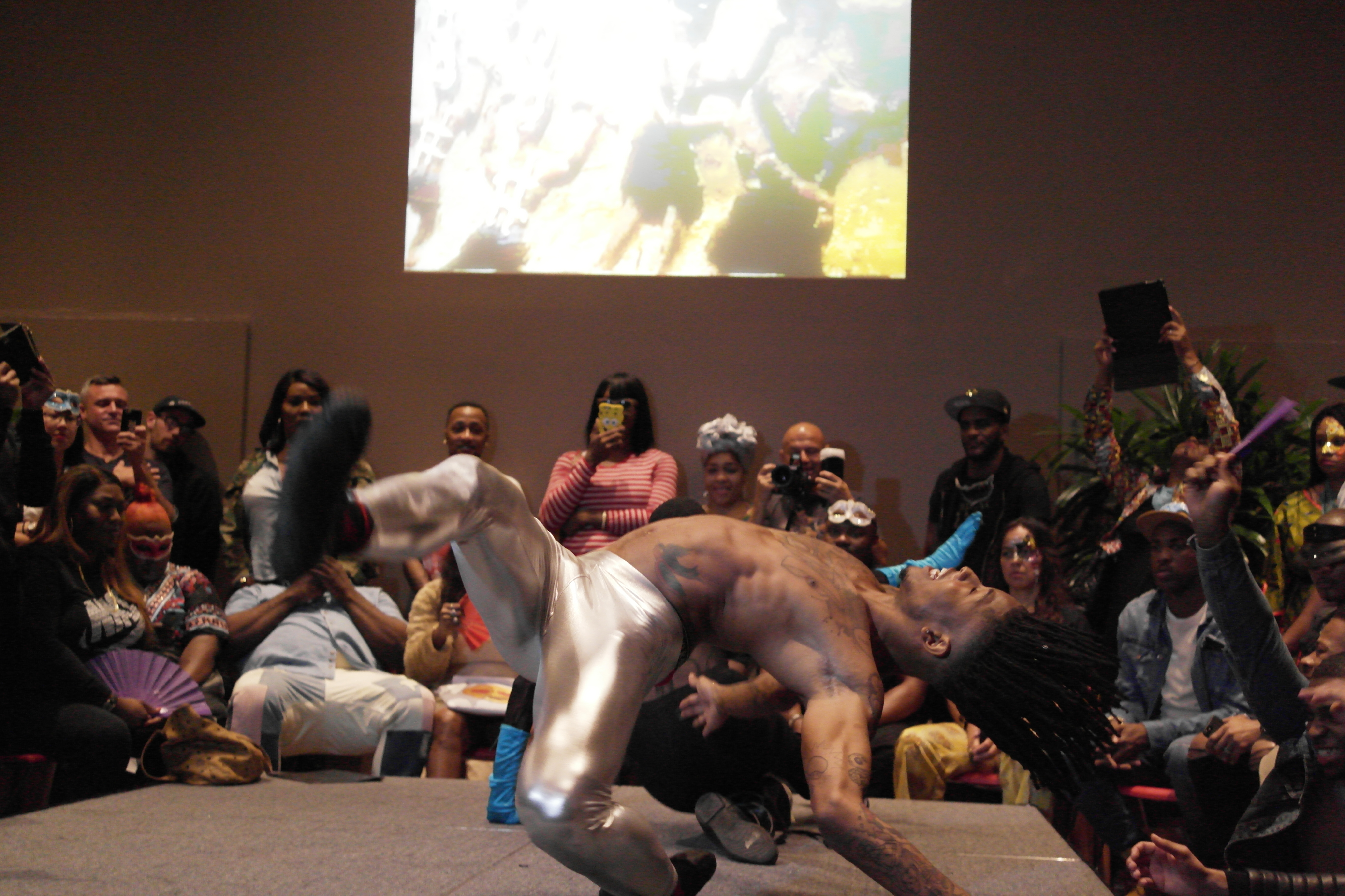 by LGBT folks at National Museum of African Arts